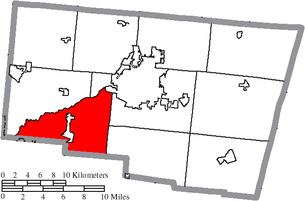 Map of the municipal and township boundaries of Clark County, Ohio, United States, as of the 2000 census, with the location of Mad River Township highlighted. Township borders are shown only in unincorporated areas in order to differentiate incorporated and unincorporated areas more clearly.